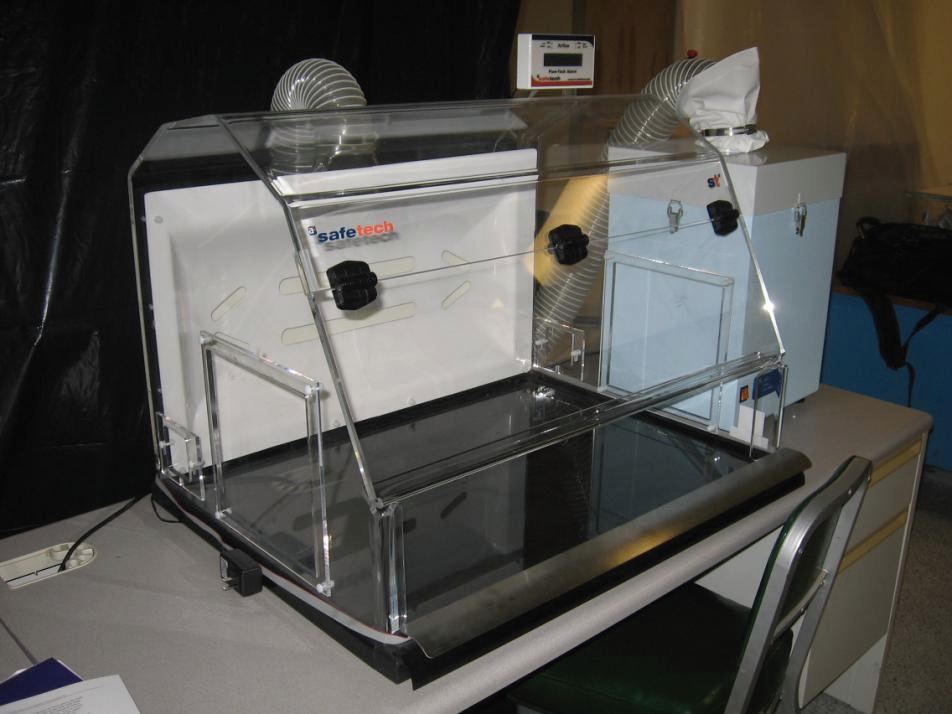 Figure 10. Nano containment hood adapted from a pharmaceutical balance enclosure. The use of bench-mounted weighing enclosures is common for the manipulation of small amounts of material. These fume hood-like local exhaust ventilation (LEV) devices typically operate at airflow rates lower than those in traditional fume hoods and use airfoils at enclosure sills to reduce turbulence and potential for leakage. They also have face velocity alarms to alert the user to potentially unsafe operating conditions. Based on the hazards assessment, these fume hood-like LEV devices can be outfitted with HEPA filtration or connected to the ventilation exhaust system.